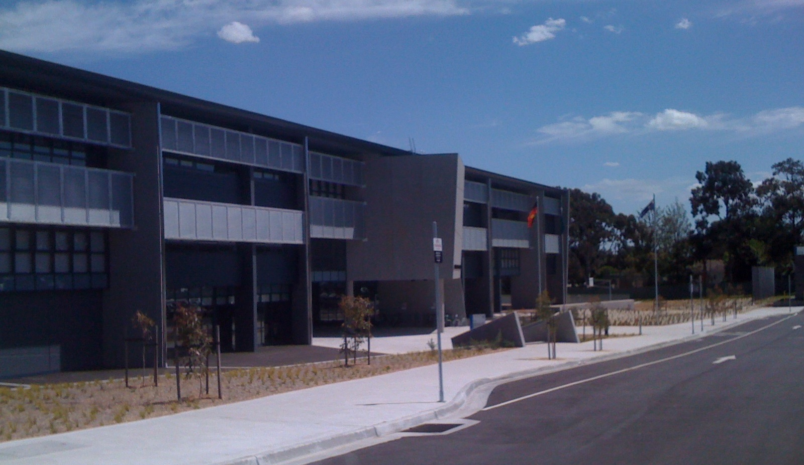 A picture of the main entrance of the John Monash Science School in Clayton, Victoria, Australia